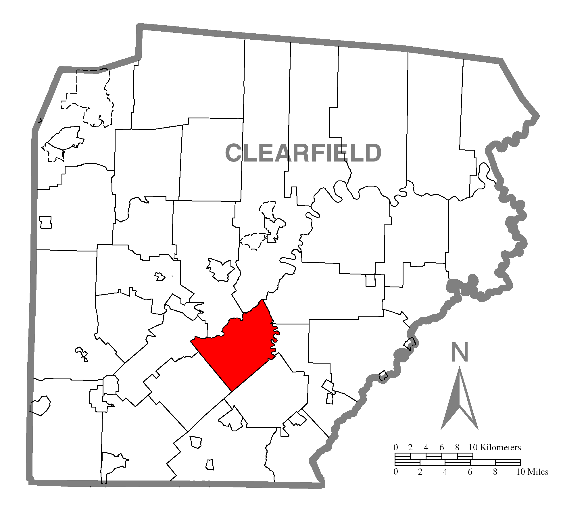 A map of Clearfield County showing Knox Township, Pennsylvania (alternate) highlighted on the map.